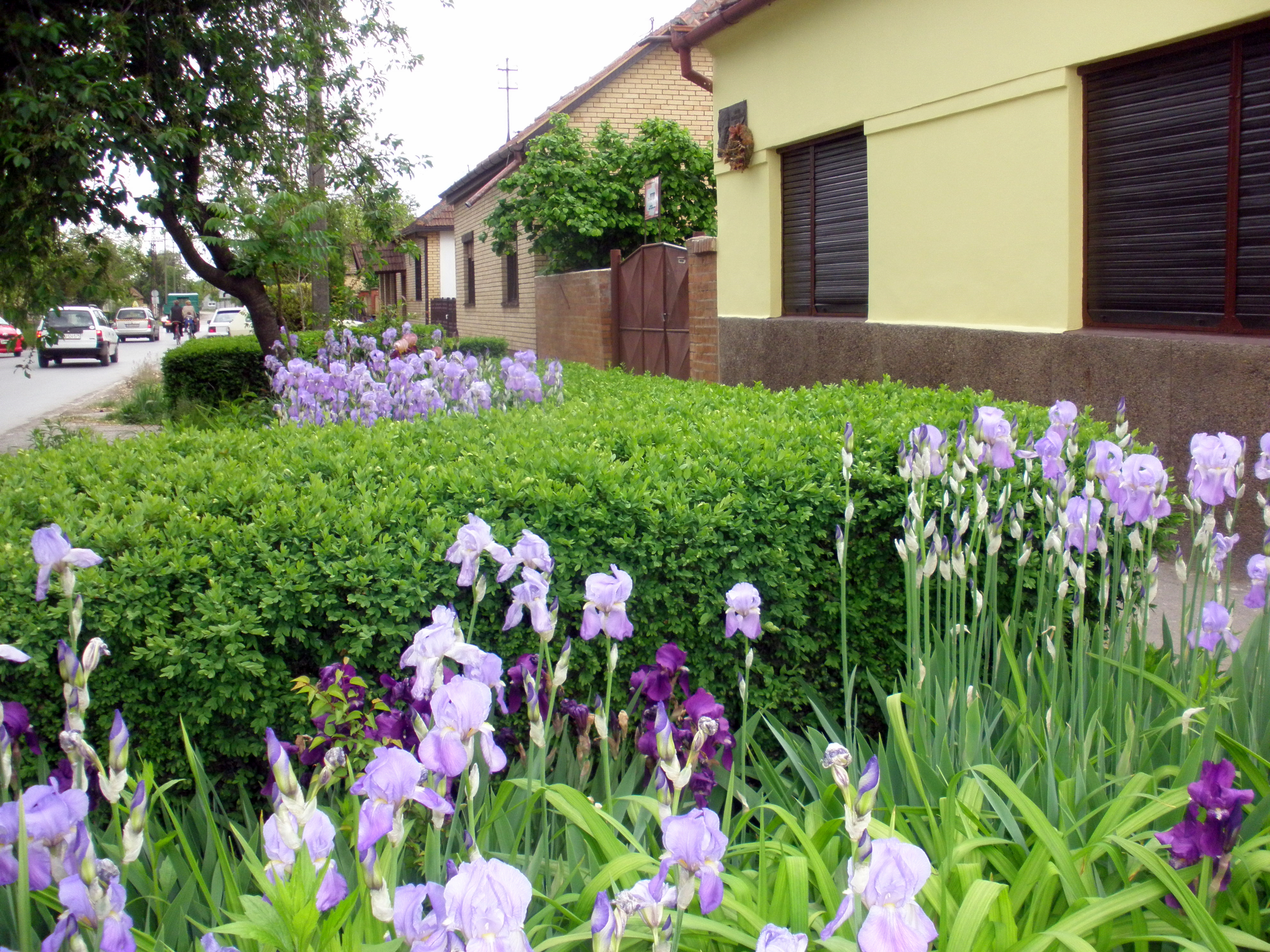 Native house and house where lived poet János Sziveri in Mužlja, Vojvodina